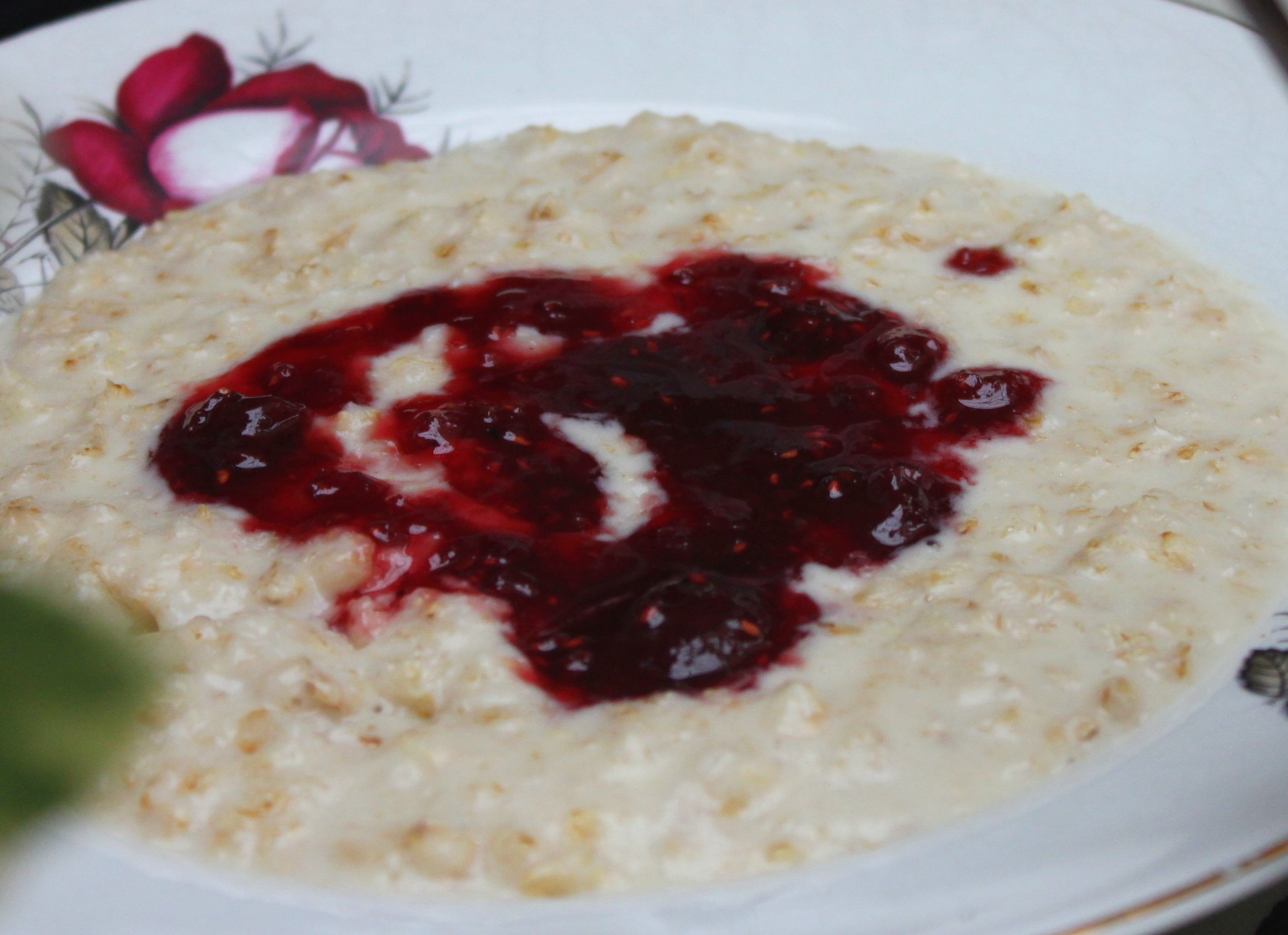 Porridge with berry compote in a Café in Dublin